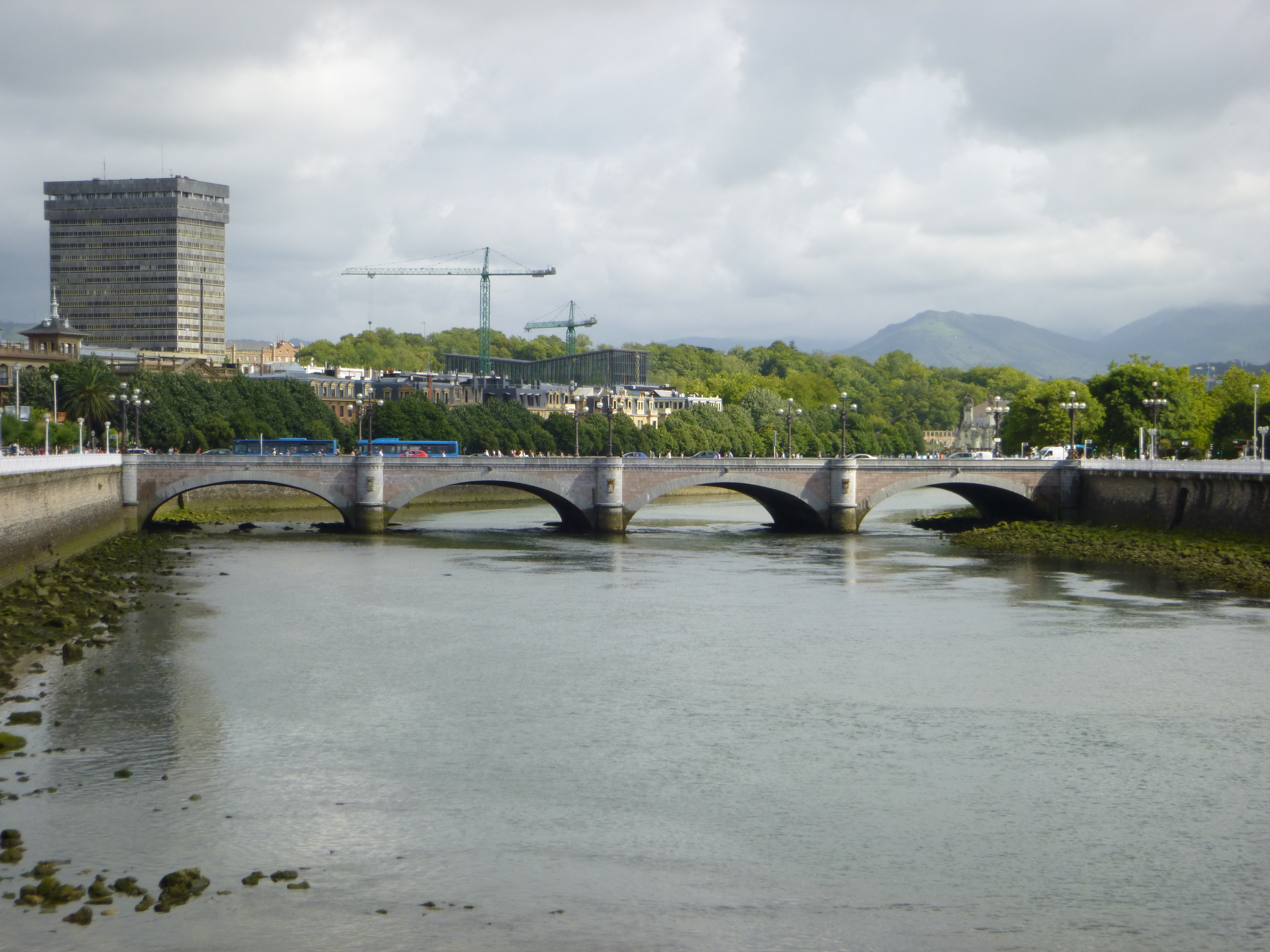 Santa Katalina bridge